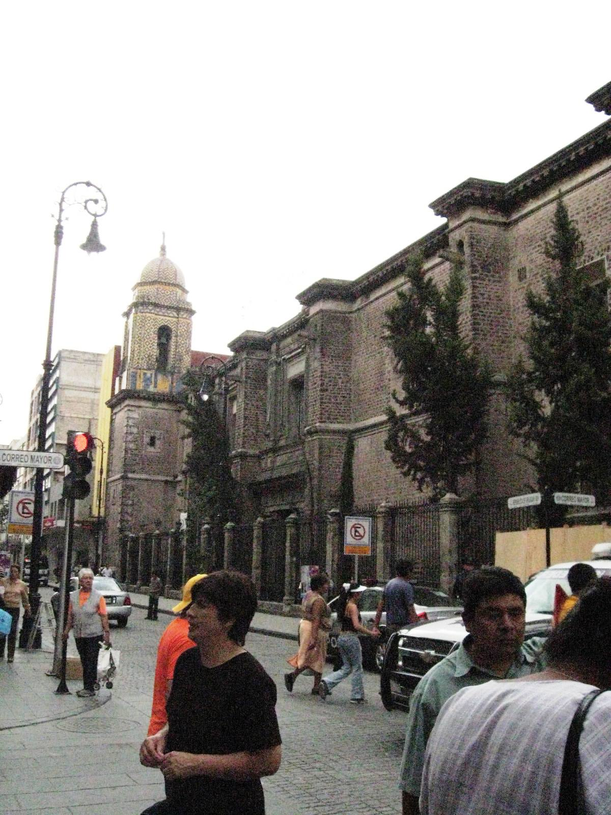 Cathedral Nuestra Señora de Valvanera and Sanctuary of San Charbel located at Rep de Uruguay and Correo Mayor street to the east of the Zocalo in the Centro of Mexico City